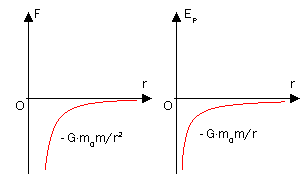 The graph of Gravitational force and potential energy between two stars.